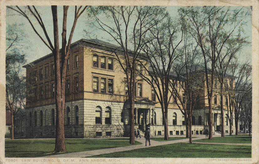 Law Building, U. of M., Ann Arbor, Mich.